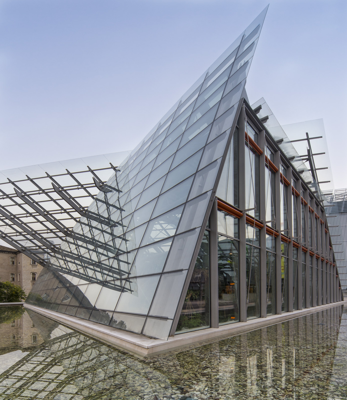 Exterior of MUSE - Science Museum in Trento.